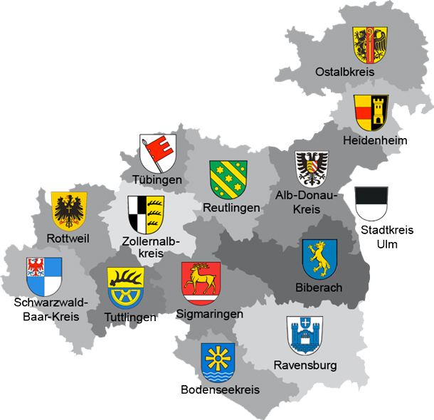 KIRU Verbandsgebiet